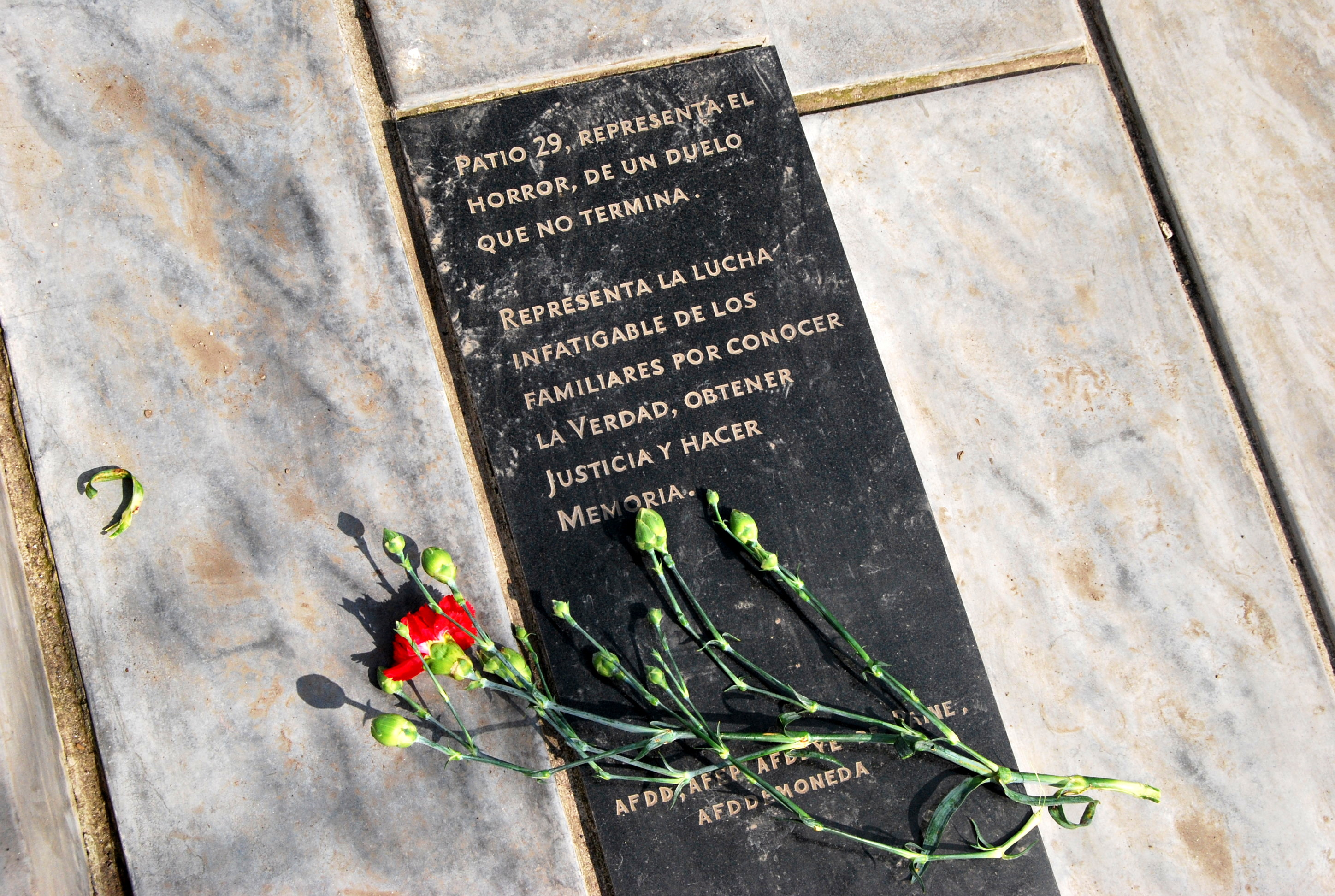 Santiago General Cemetery Patio 29. Inscription: "Lot 29 represents the horror of an endless mourning. It represents the indefatigable fight of relatives to know the truth, get justice and to remember." [1]